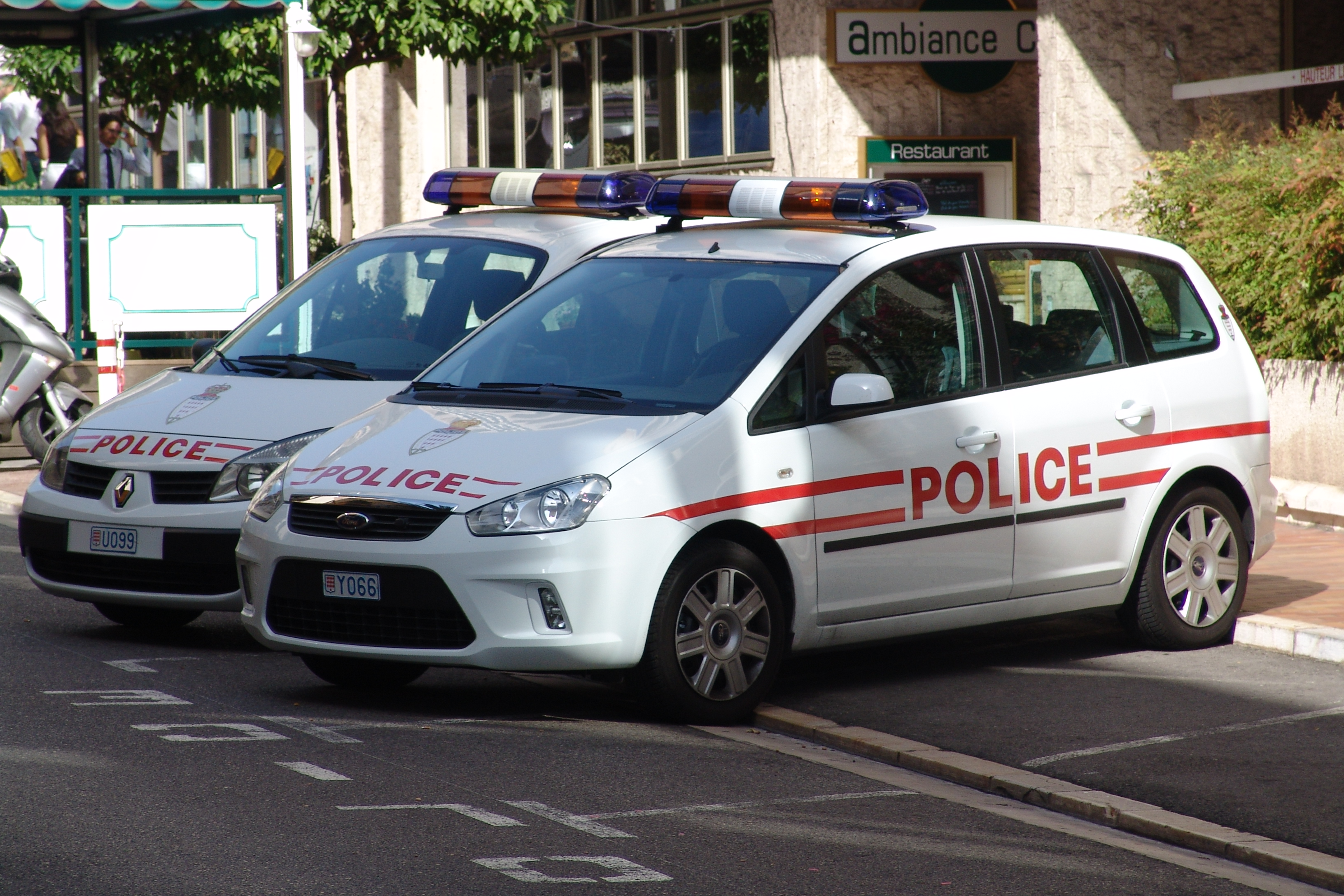 Police cars in Monaco